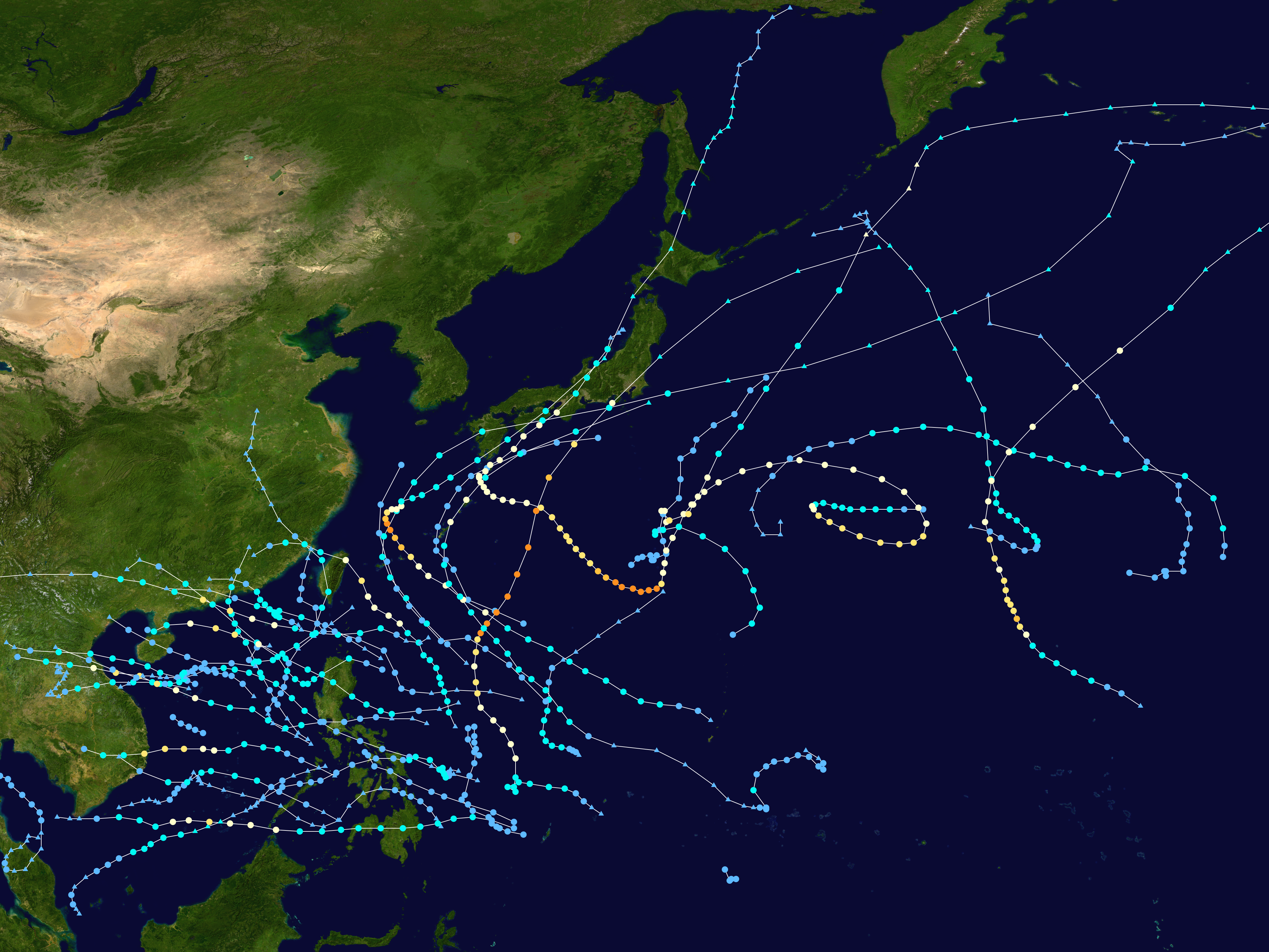 This map shows the tracks of all tropical cyclones in the 2017 Pacific typhoon season. The points show the location of each storm at 6-hour intervals. The colour represents the storm's maximum sustained wind speeds as classified in the Saffir-Simpson Hurricane Scale (see below), and the shape of the data points represent the type of the storm. Saffir–Simpson scale Tropical depression≤38 mph≤62 km/h Category 3111–129 mph178–208 km/h Tropical storm39–73 mph63–118 km/h Category 4130–156 mph209–251 km/h Category 174–95 mph119–153 km/h Category 5≥157 mph≥252 km/h Category 296–110 mph154–177 km/h Unknown Storm type Tropical cyclone Subtropical cyclone Extratropical cyclone / Remnant low / Tropical disturbance / Monsoon depression